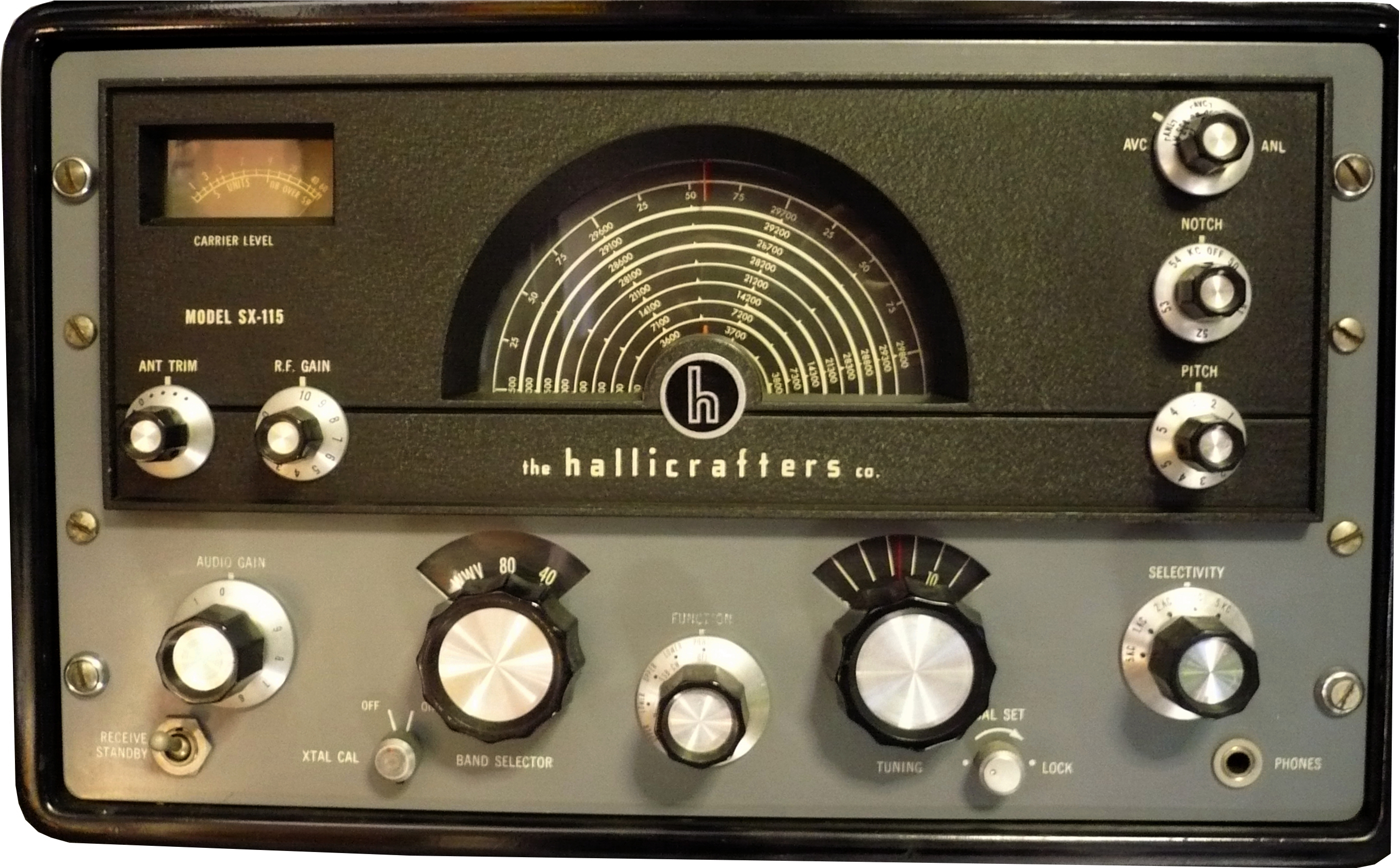 Hallicrafters receiver model SX-115 (3,5 - 30 Mhz, WWV), front